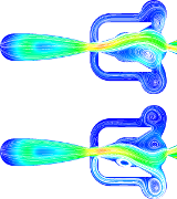 RANS simulation of a fluidic oscillator